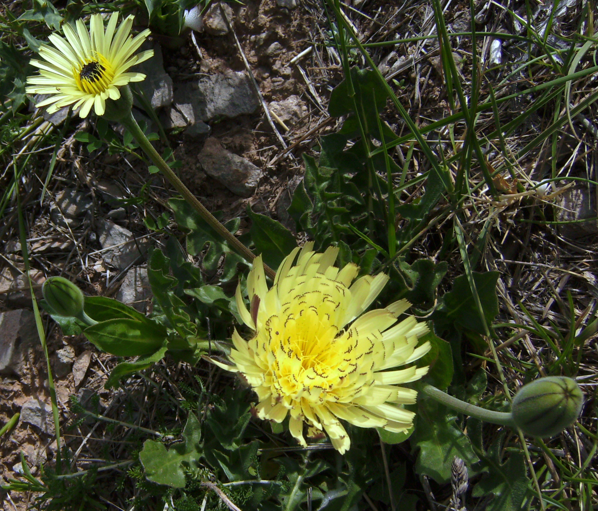 Urospermum dalechampii, in the wild with yellow flowers. Castelltallat, Catalonia